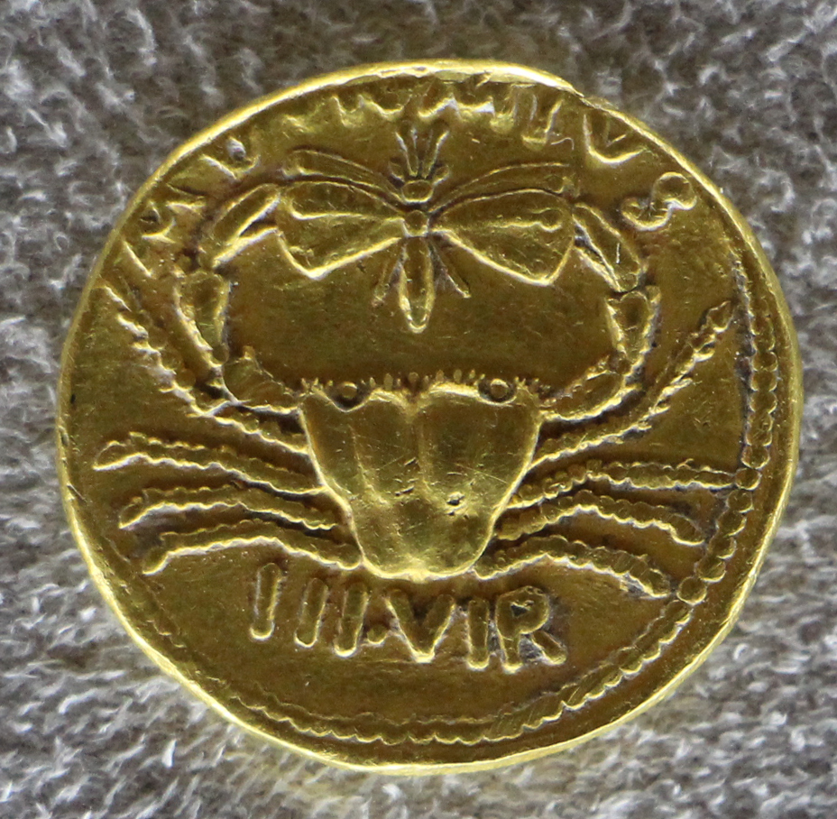 Ancient Roman coins in the Museo archeologico nazionale (Florence)